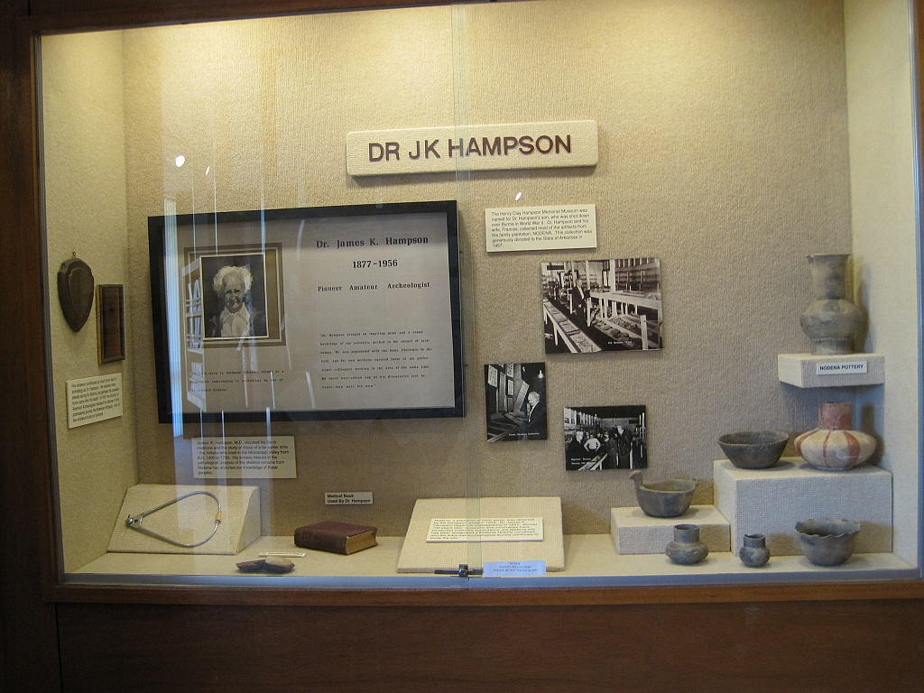 Hampson Museum State Park, Arkansas. Dr Janes Kelly Hampson exhibit